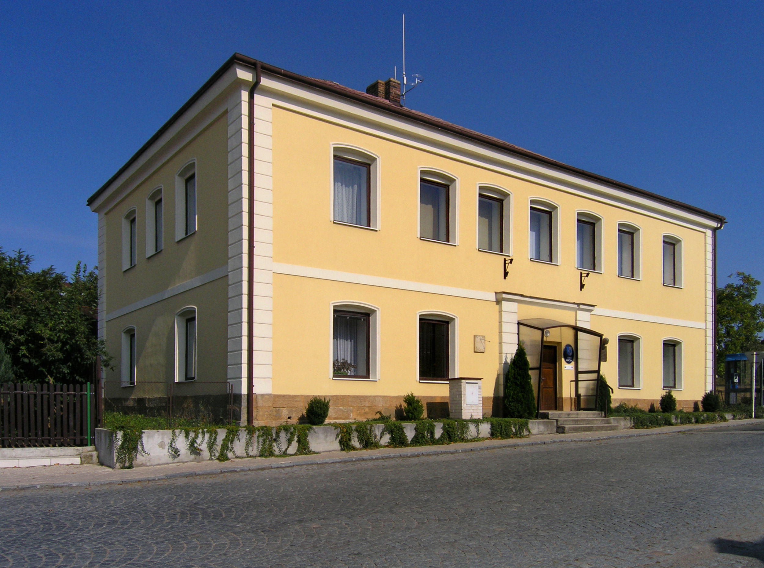 Municipally office and post office in Libčany, Czech Republic